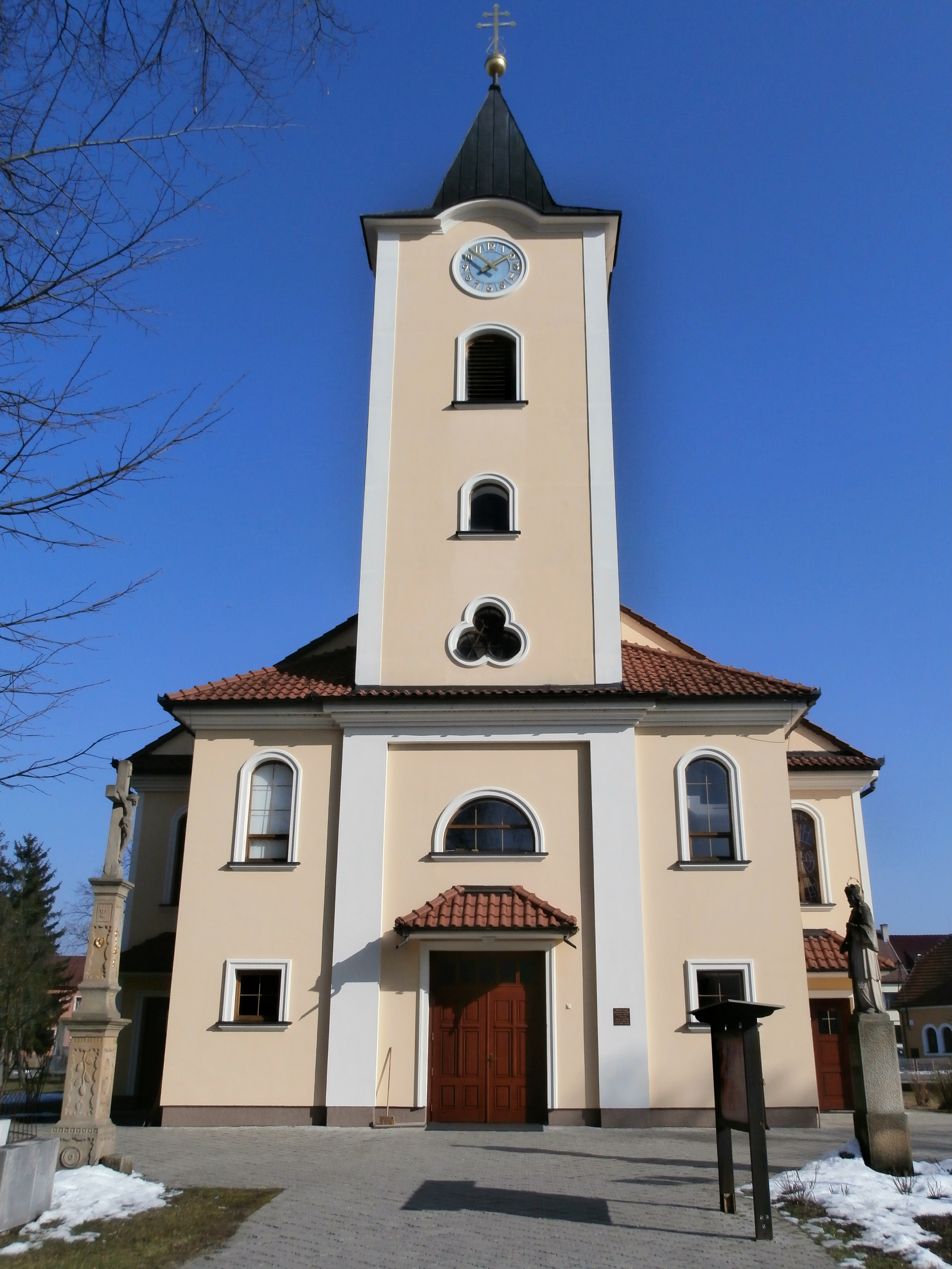 Church of the Nativity of the Virgin Mary in Šumice